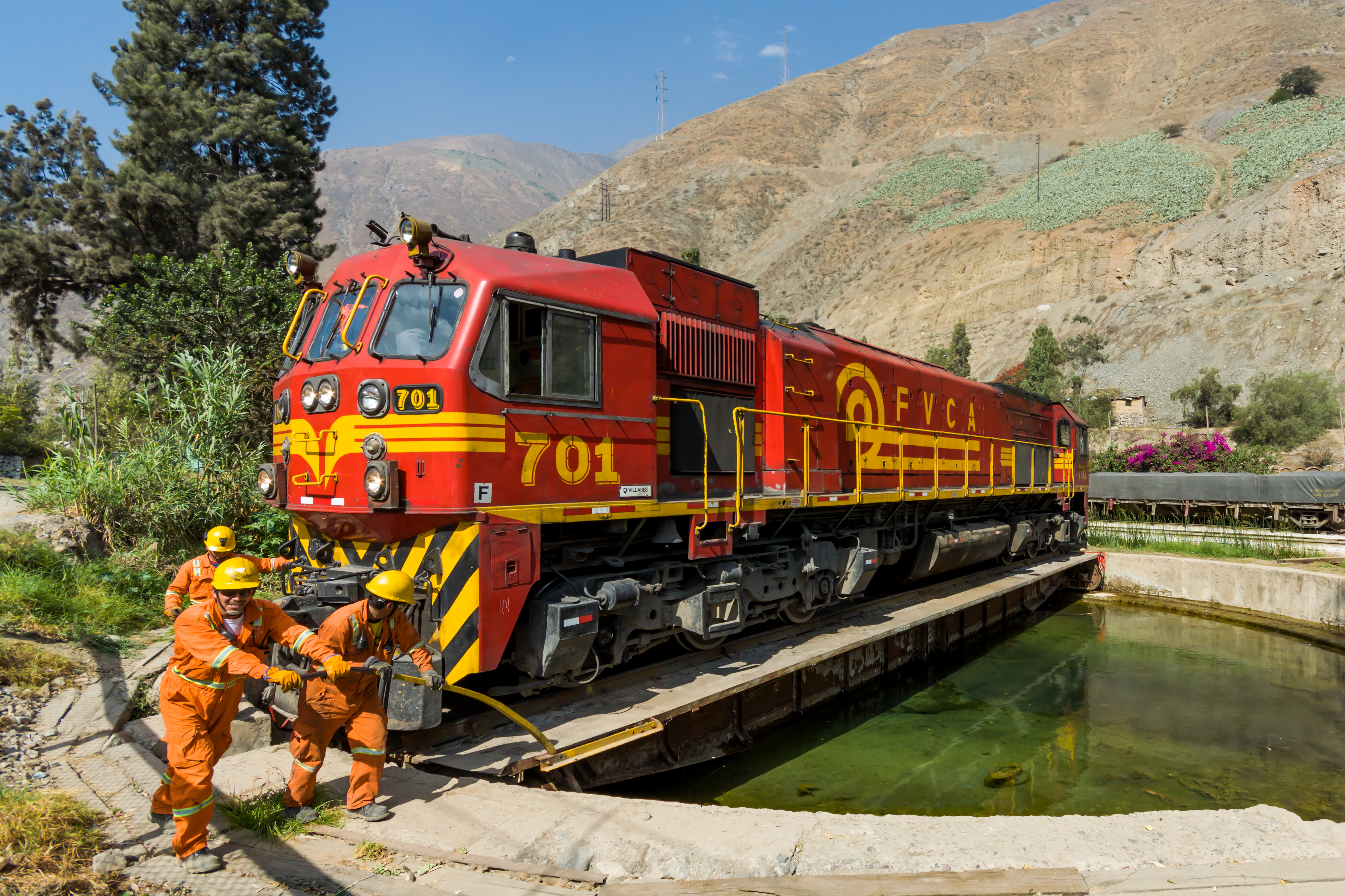 701, Ferrocarril Central Andino's only EMD JT26CW-2B, gets turned on the "pool turntable" at San Bartolomé, Peru. Note that the locomotive has two cabs, one of which they apparently don't want to use...